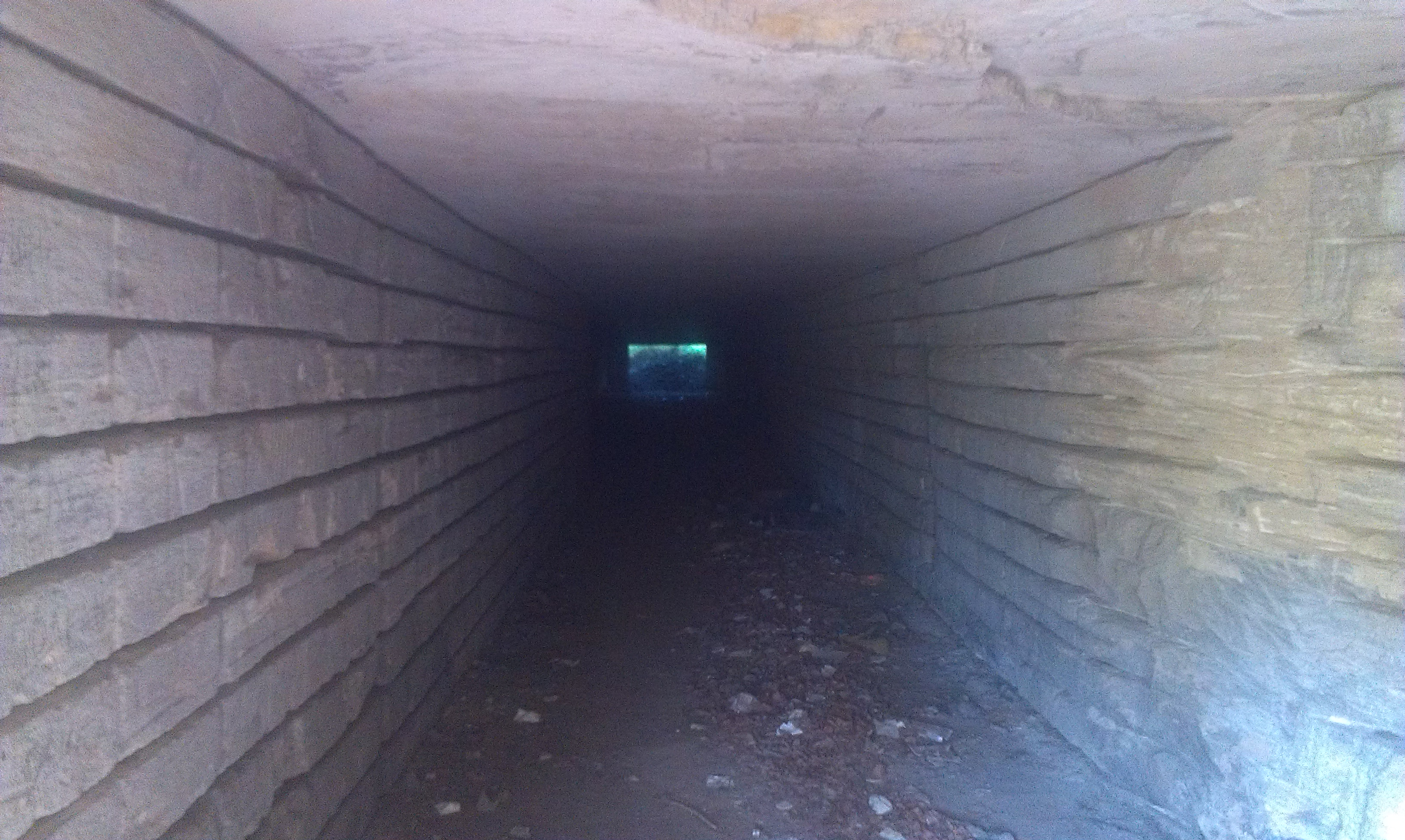 coffin